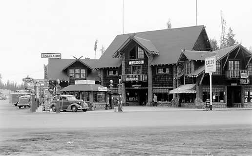 Advertising (concessions) signs along the main street of West Yellowstone, Montana. Eagle's Store (rustic structure) at Yellowstone, USA